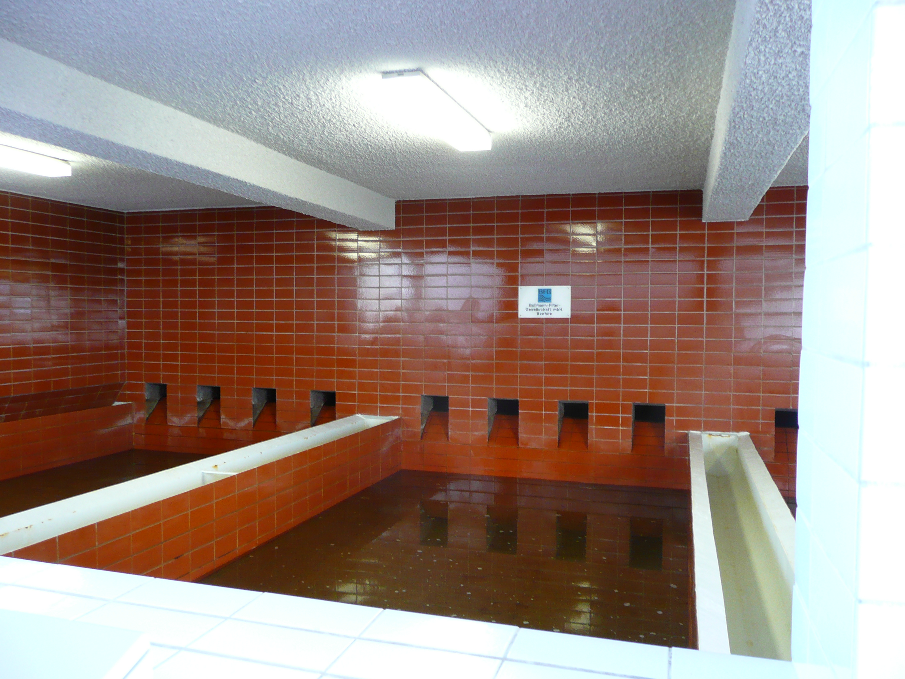 Open filter in the water works on the East Frisian North Sea island of Juist